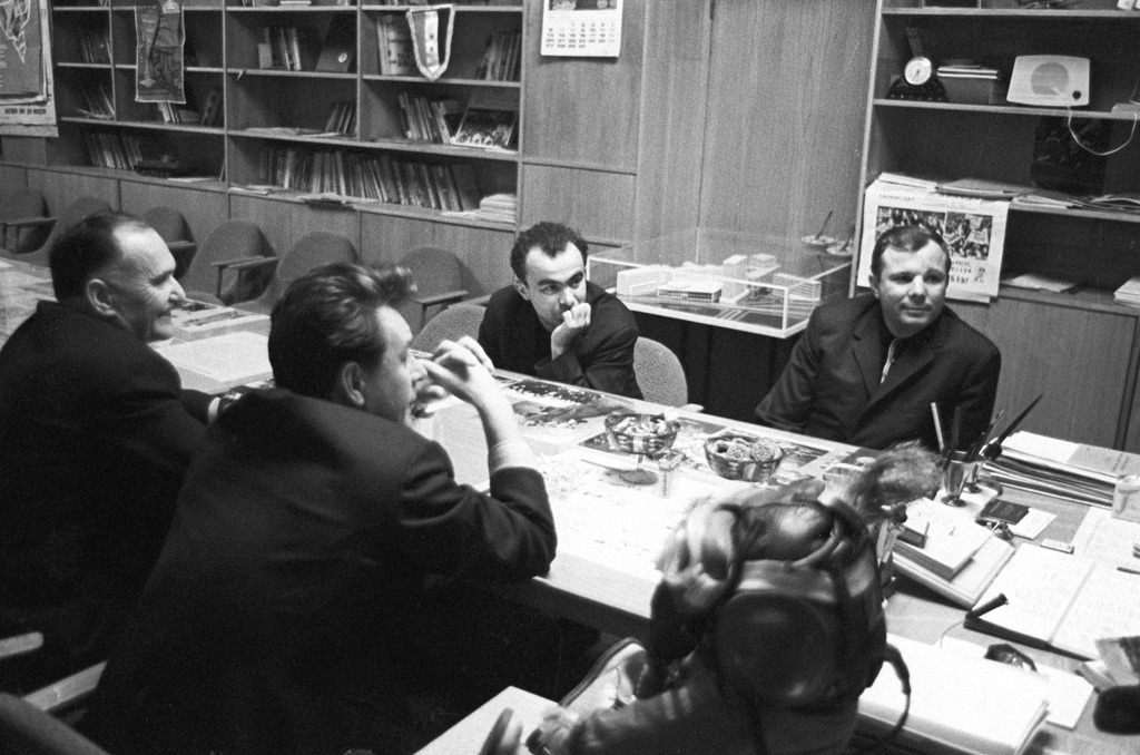 “First cosmonaut Yury Gagarin in Molodaya Gvardiya Publishers”. First cosmonaut Yury Gagarin in the Molodaya Gvardiya Publishers in 1968. On that day he signed for printing his book :Psychology and Space."